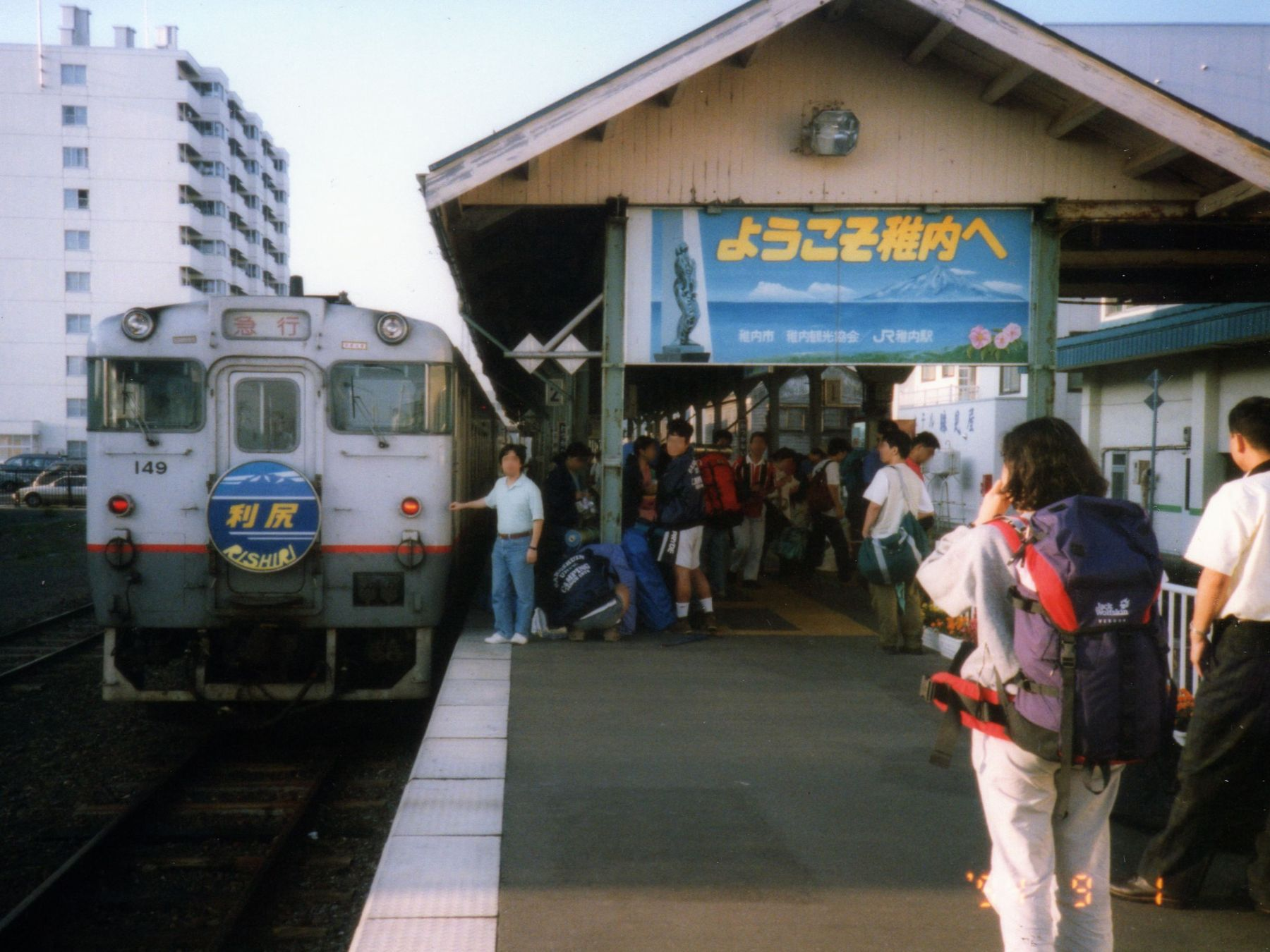 Express "Rishiri" at Wakkanai Sta.